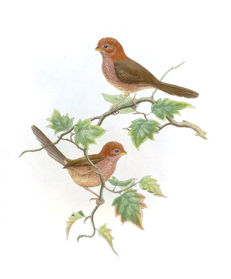 Suthora brunnea = Sinosuthora brunnea